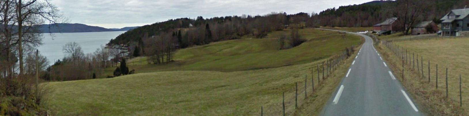 A old road